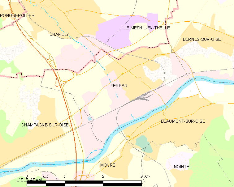 Map of French municipality Persan